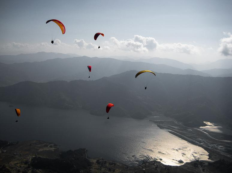 Paragliding in Pokhara